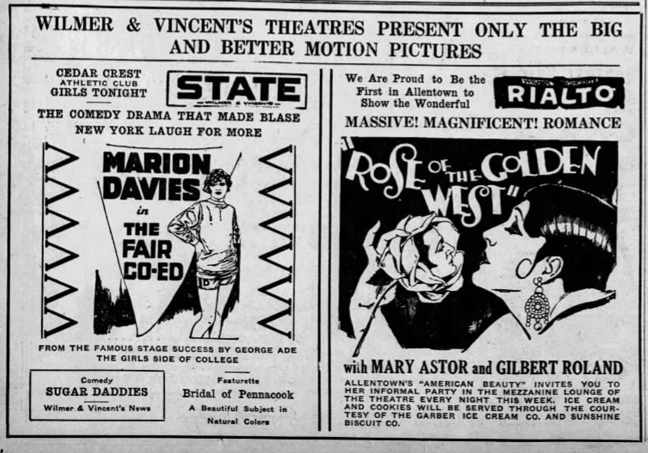 Advertisement with the State Theater showing the American film The Fair Co-Ed (1927) and the Rialto Theater showing the American film Rose of the Golden West (1927) - 15 Nov 1927 Morning Call, Allentown PA